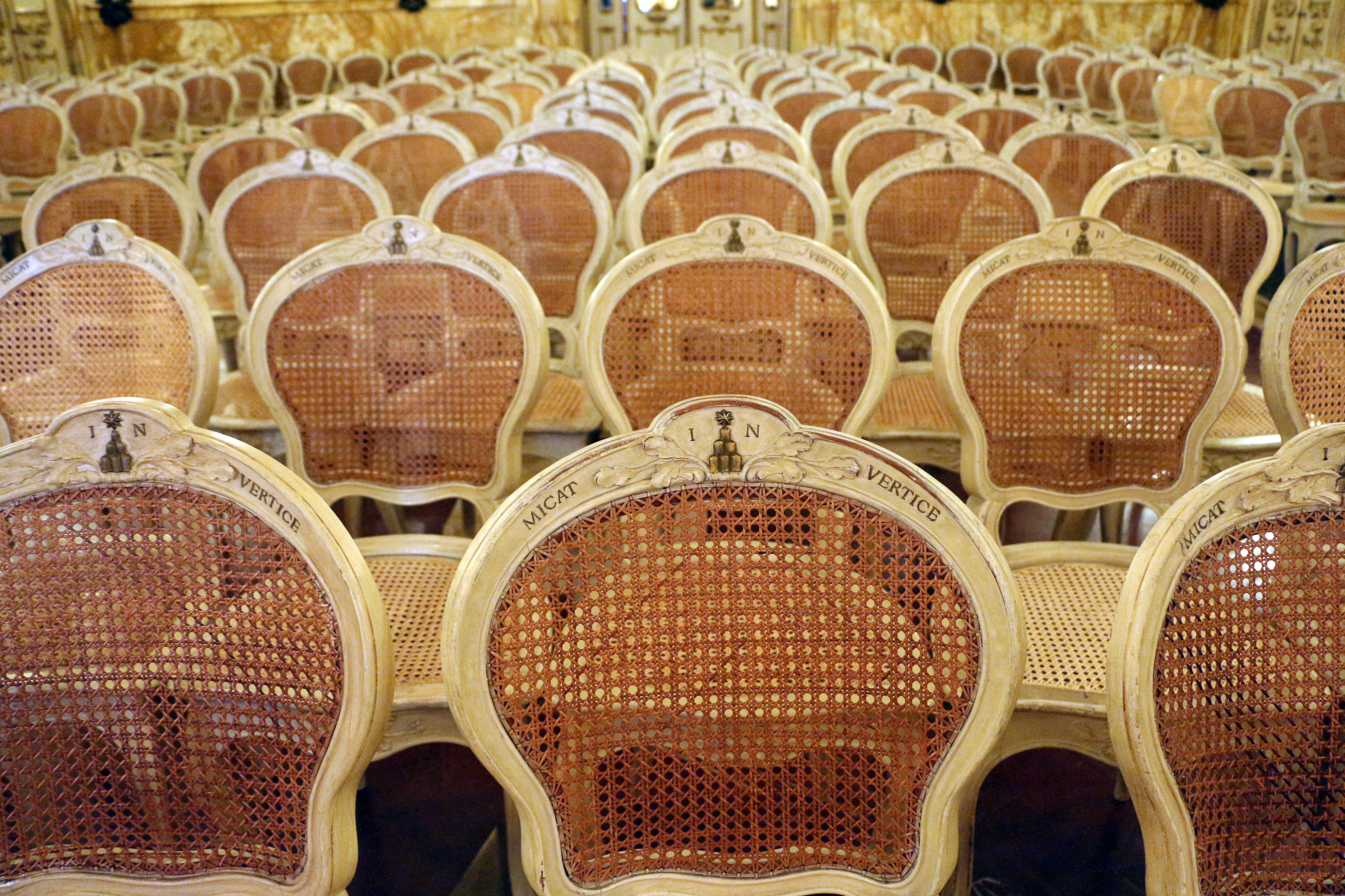 Palazzo Chigi Saracini